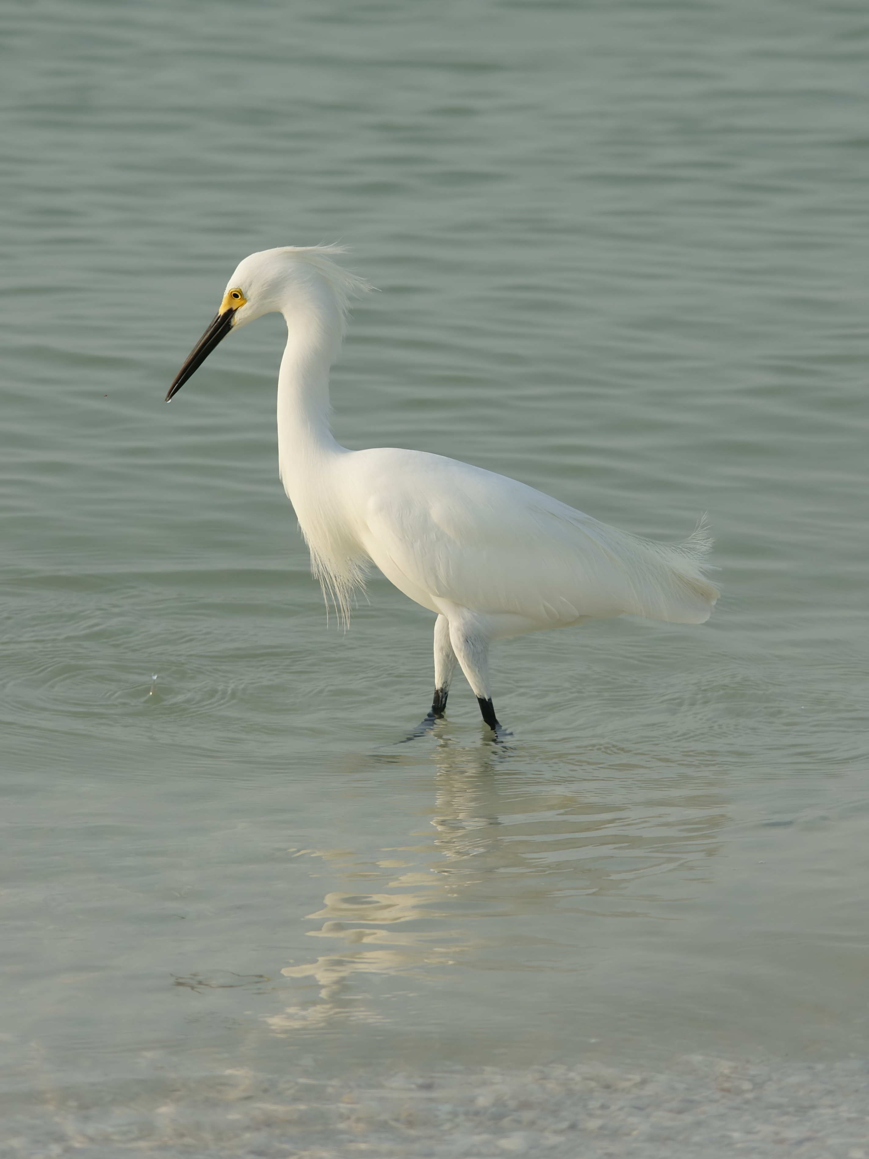 Snowy Egret on Sanibel Island in Lee County, Florida, U.S.A.